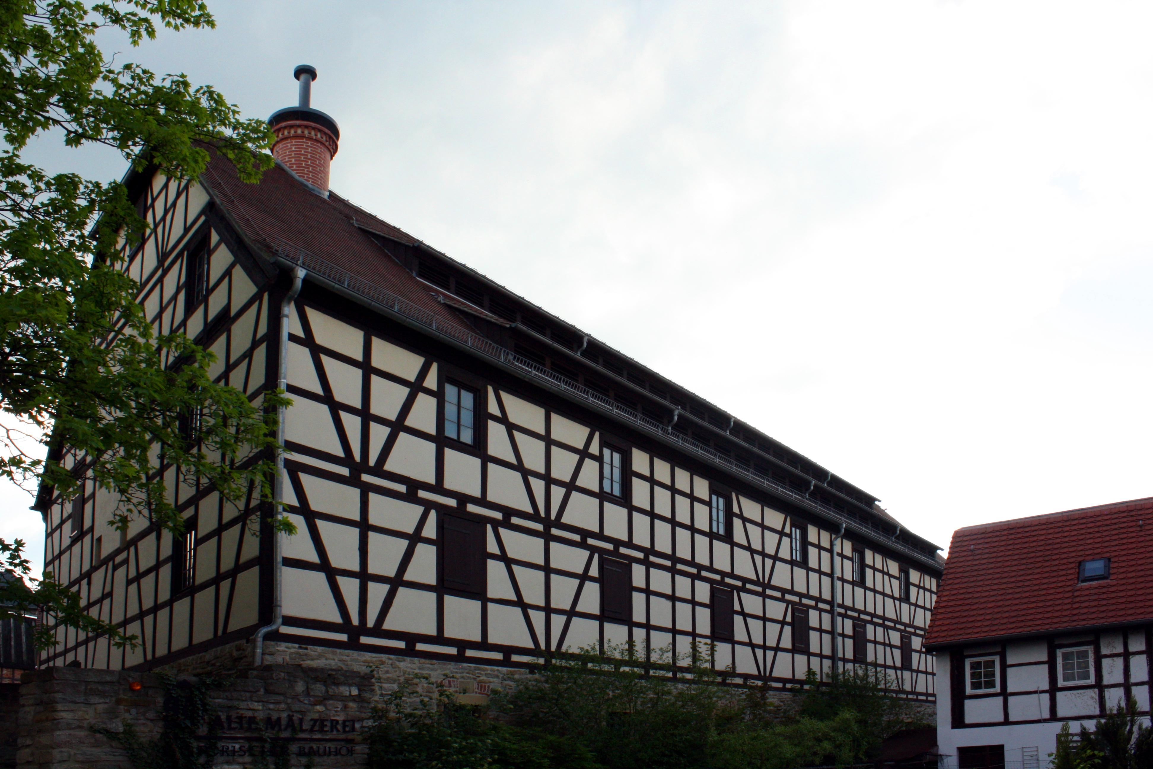 Ancient malthouse in Zeitz (Saxony-Anhalt)